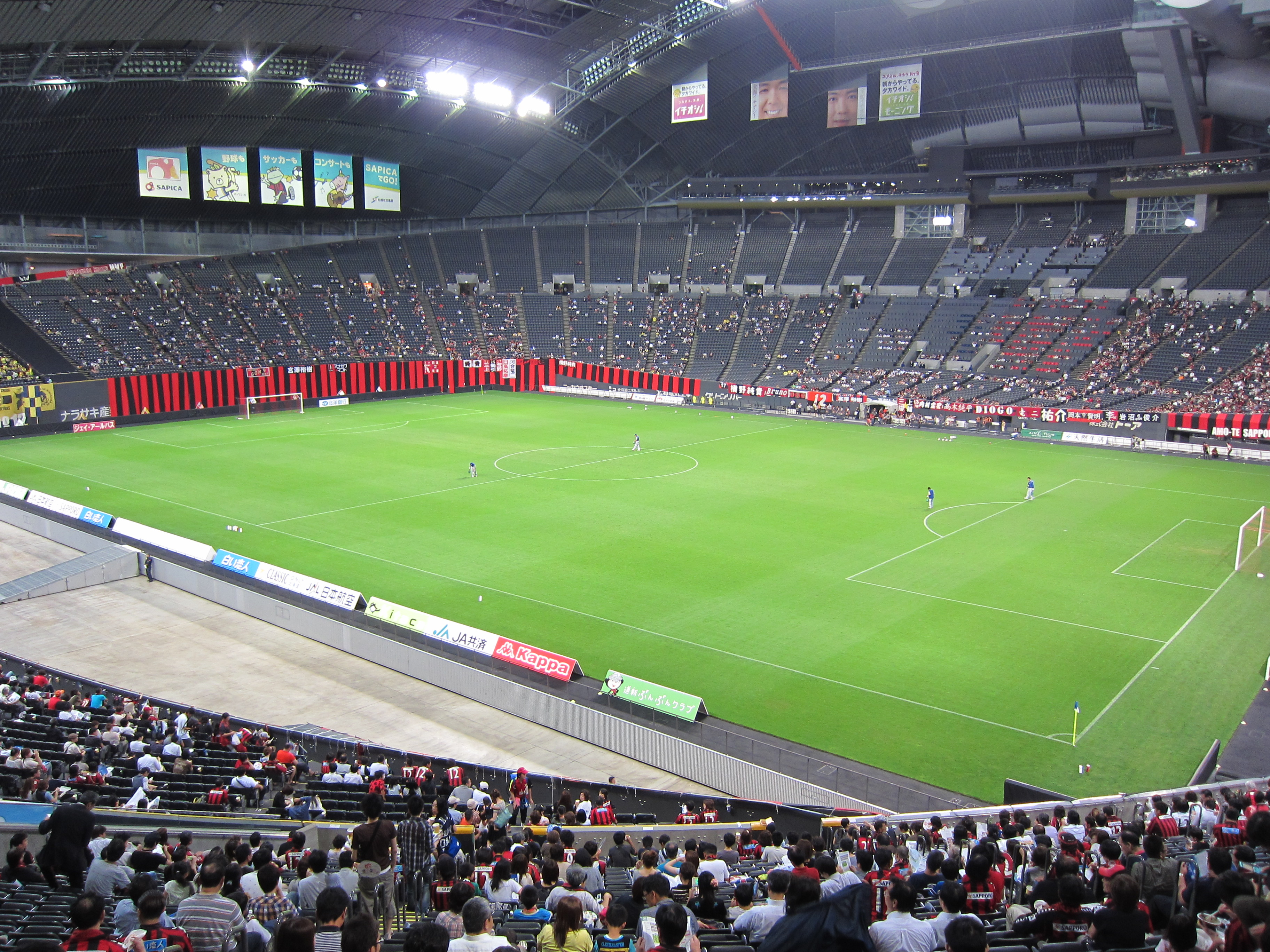 Sapporodome